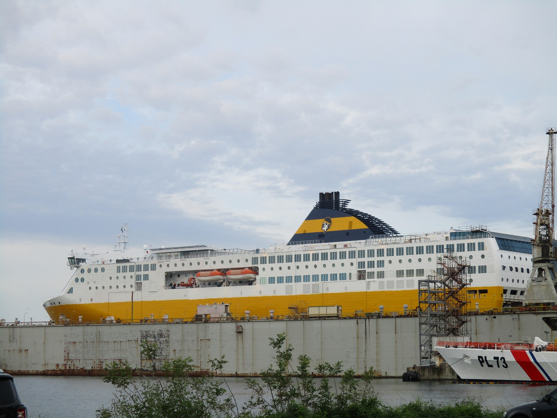 Pascal Lota at la spezia